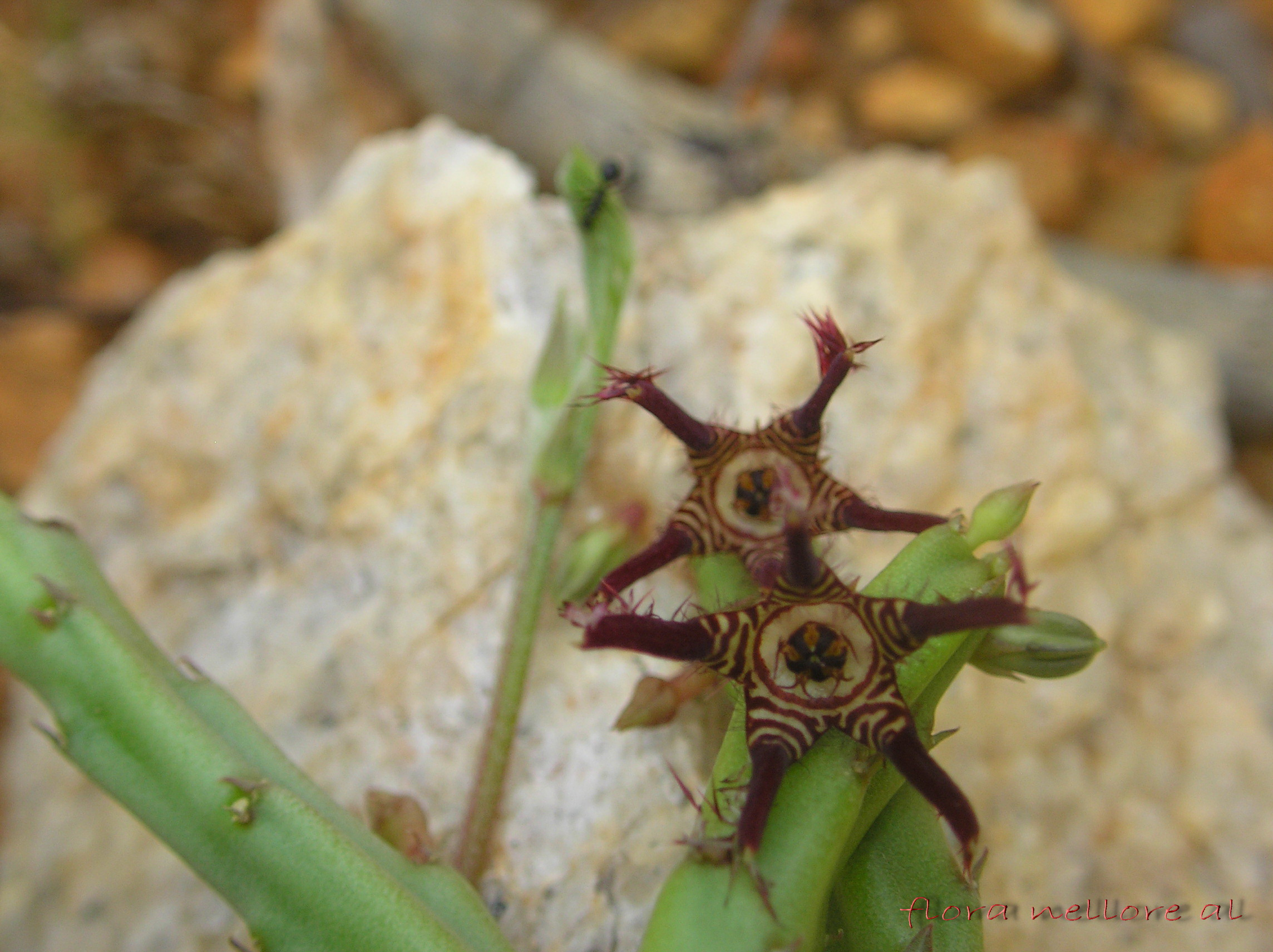 Caralluma adscendens var. attenuata , family: Asclepiadaceae Local name(Telugu): Kundeti kommu Distribution: Common in tropical scrub jungles near foot of hills of India A perennial herb, with angular fleshy green stems with many branches. Leaves reduced to scales. Corolla banded whire and purple on the lower part, upper part dark purple with purple fringes. The stems are edible. Used for the treatment of gum problems.